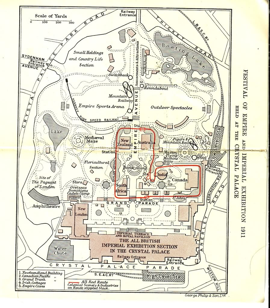 Festival of Empire Map 1911. At the Crystal Palace in South London.